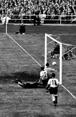 Kurt Hamrins goal against West Germany in semifinal 1958